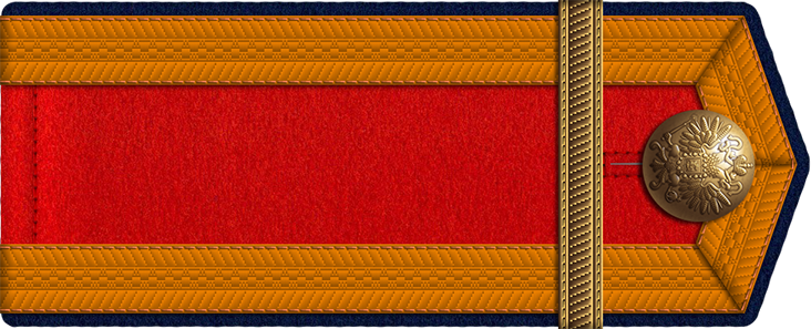 Gefreiter of Russian Life Guards Uhlan Regiment of Her Majesty (re-enlistee 2nd category in Guard)